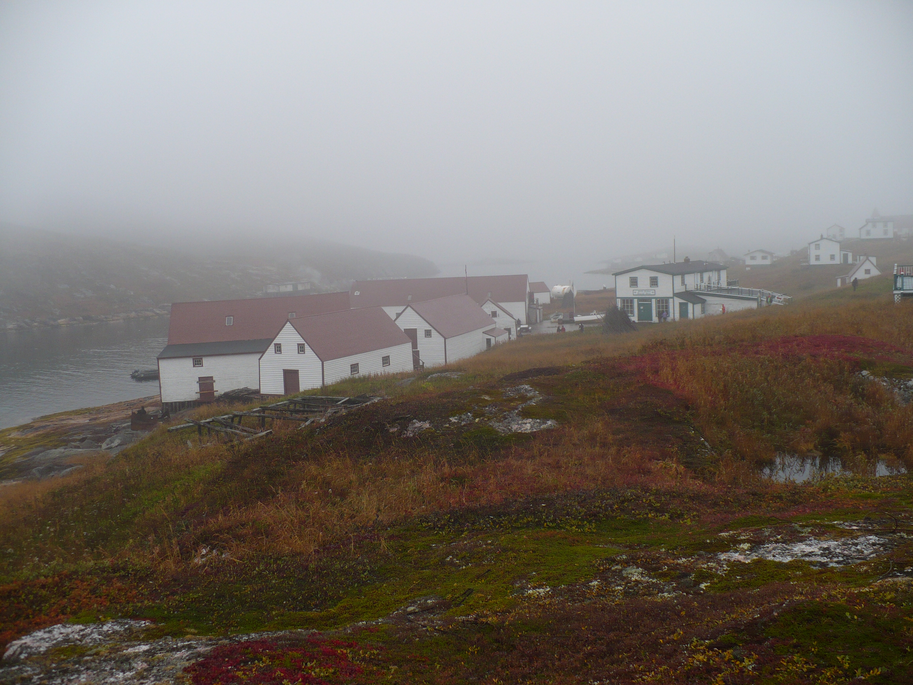 Battle Harbor, Labrador, Kanada